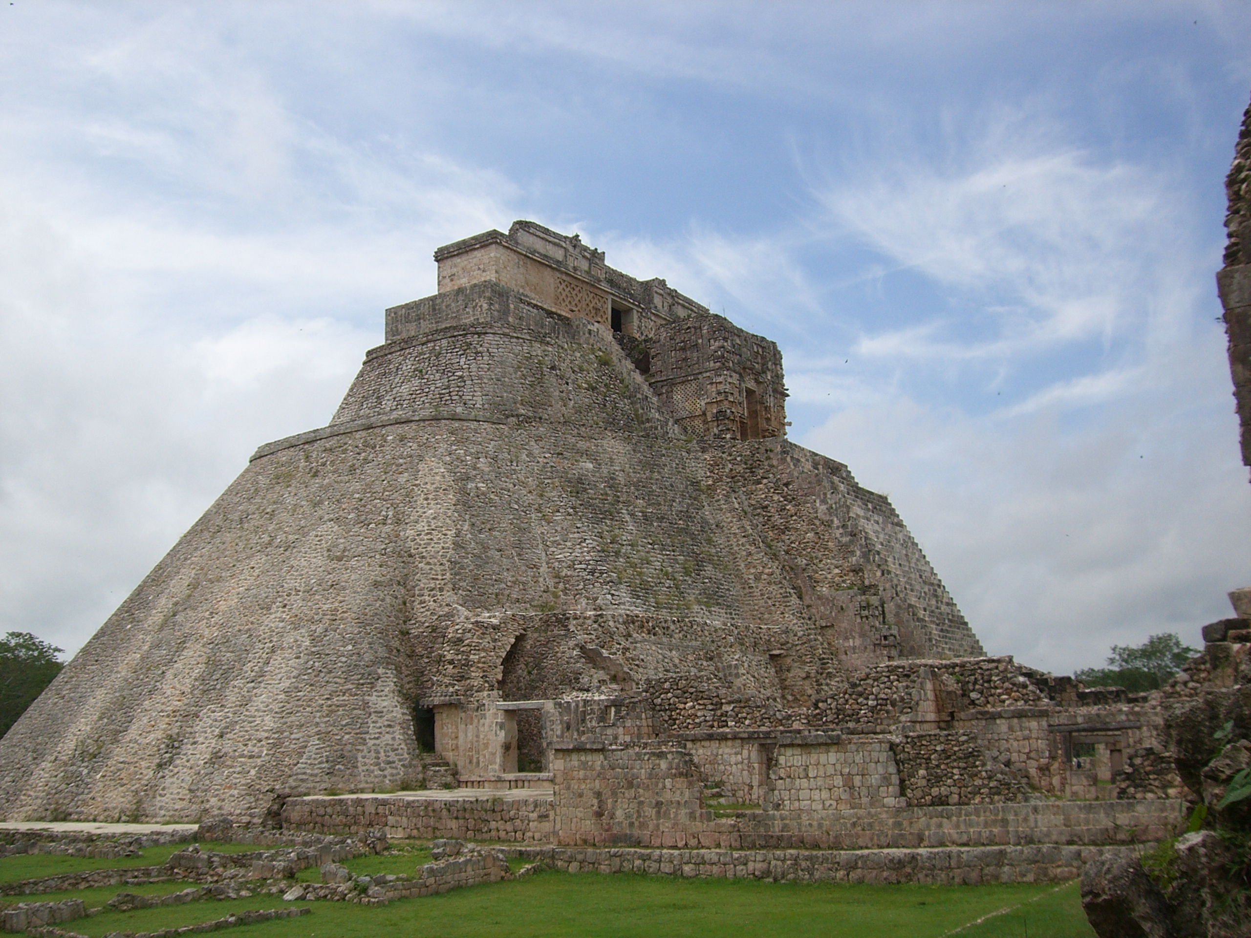 Pyramid of the Magician in Uxmal